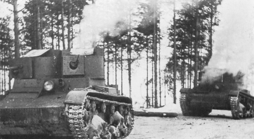 Soviet T-26 light tanks in action at Tolvajärvi.